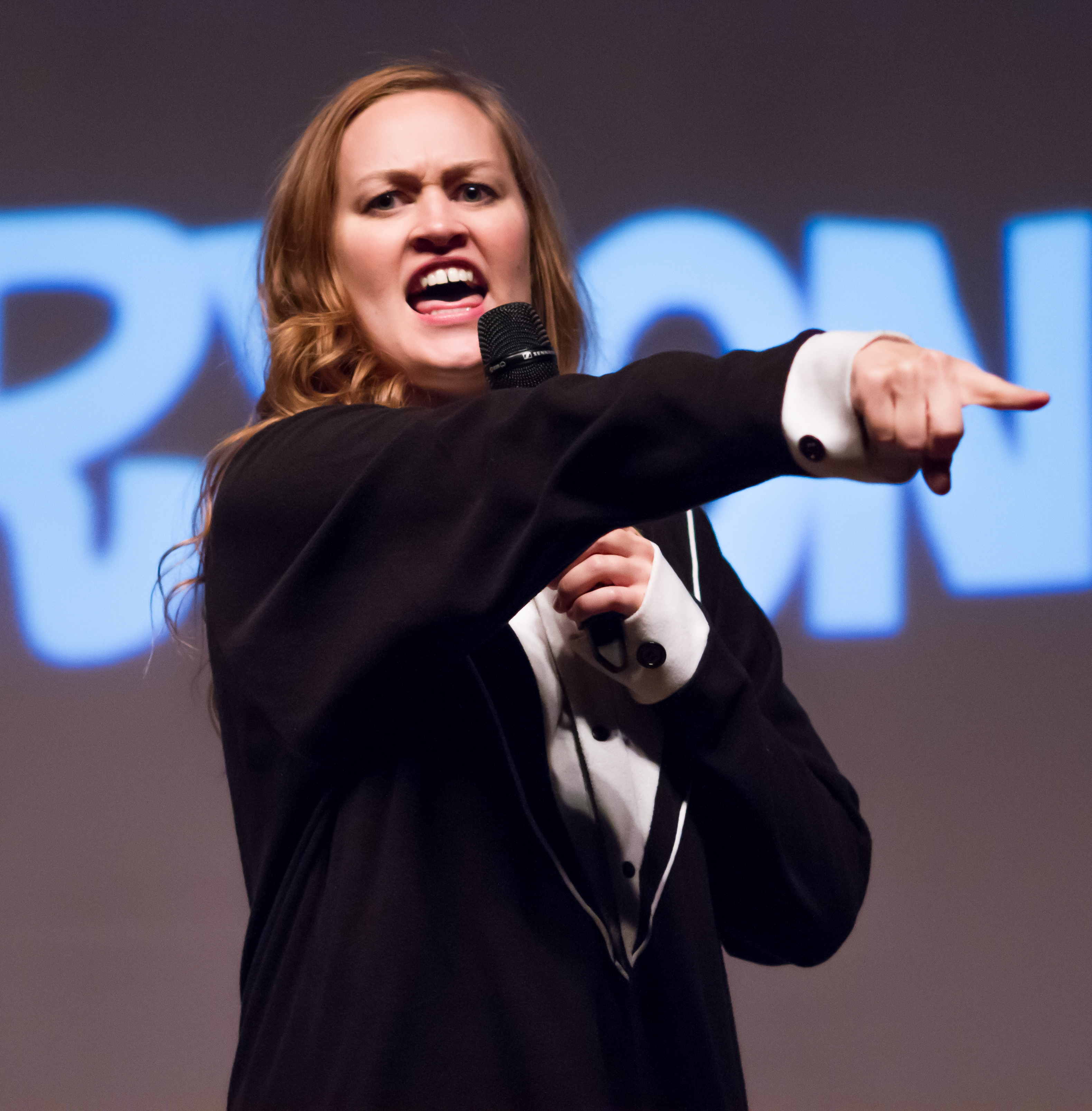 Mamrie Hart sings during the opening of the No Filter show in Portland, Oregon, on December 22, 2013.